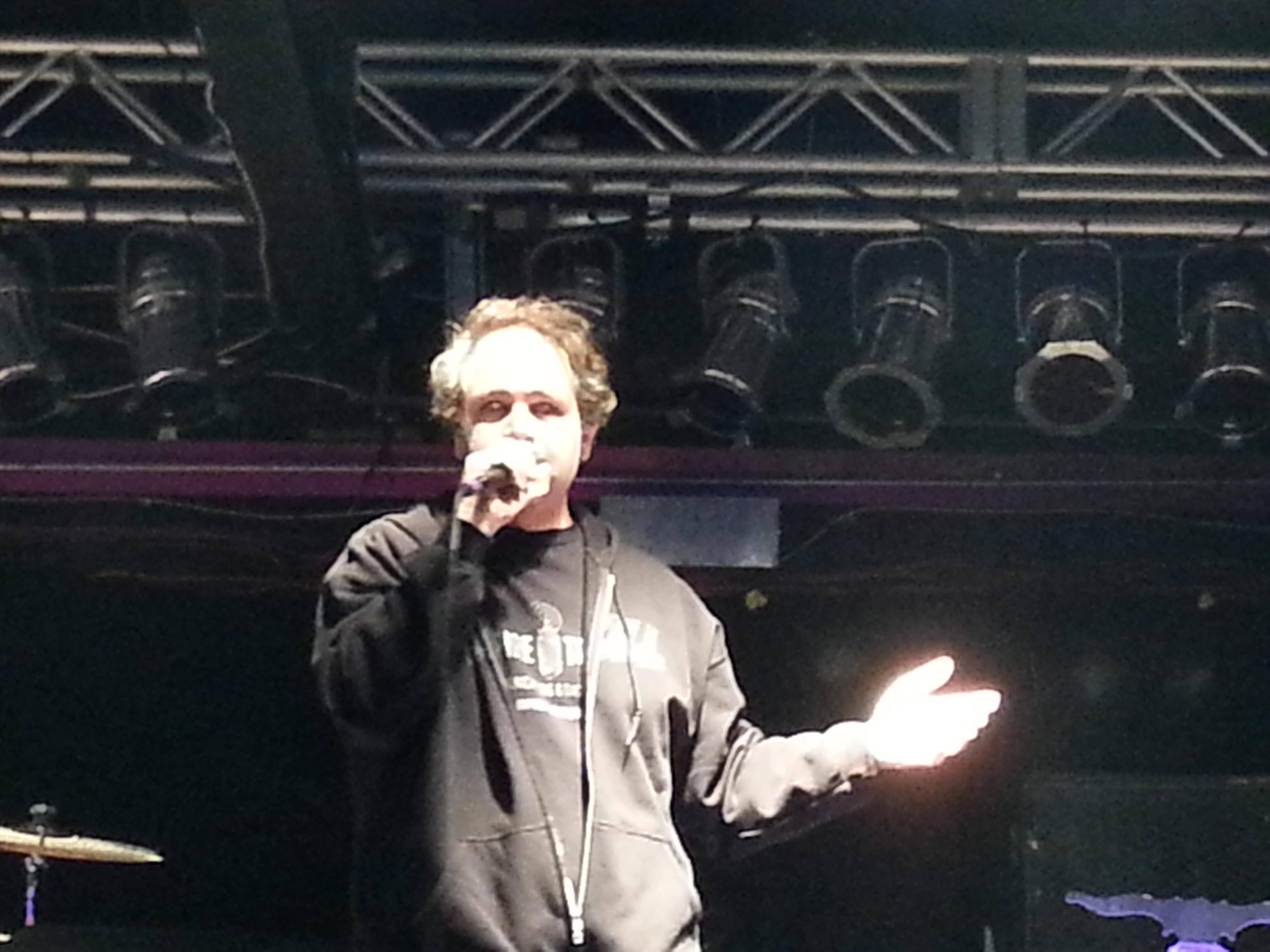 Eddie Trunk of That Metal Show